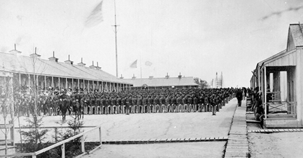 This is an image of the 26th Regiment, US Colored Troops, organized at Riker's Island, New York City, to fight in the U.S. Civil War. Organized Feb. 26, 1864. Mustered out Aug. 28, 1865. The source is an agency of the government.